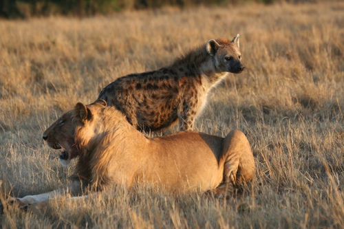 A subadult male lion and a spotted hyena in Kenya's Masai Mara